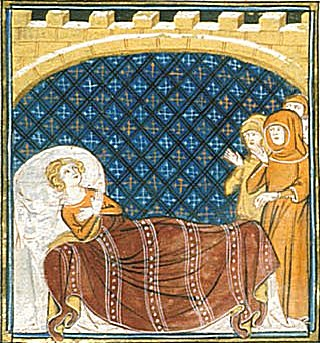 The deathbed of William X, the Duke of Aquitaine